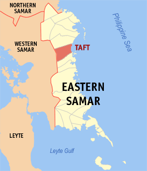 Map of Eastern Samar showing the location of Taft